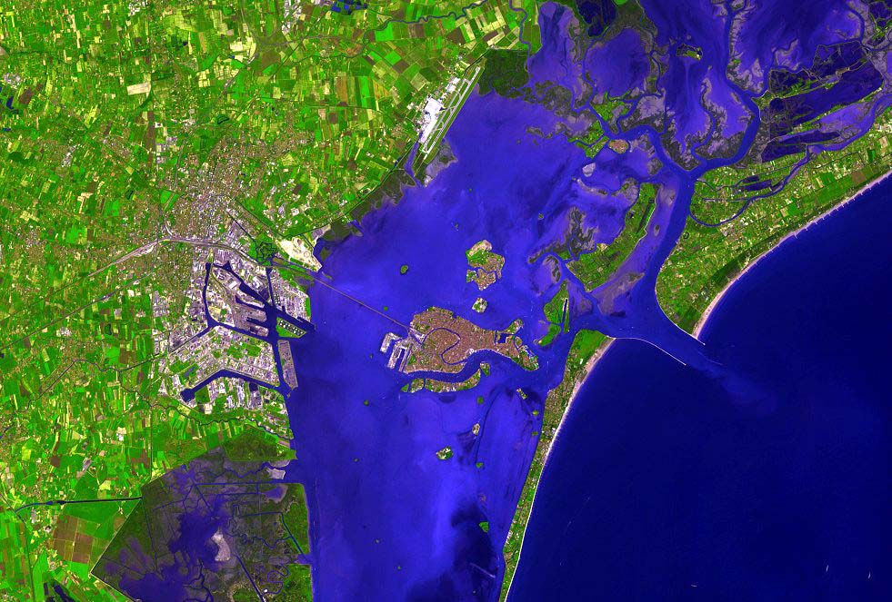 Venice viewed from 438 miles (705 km) by TERRA satellite. This simulated natural color image covers an area of 39 x 35 km and was acquired on December 9, 2001. Picture prepared for Wikipedia by Adrian Pingstone, November2003.